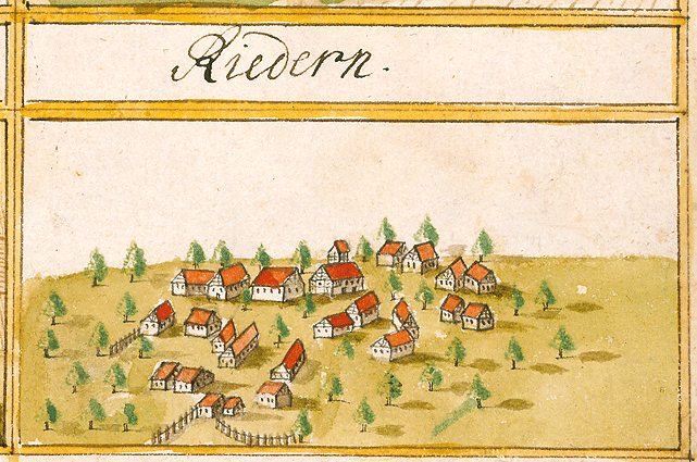 View of Reudern, Nürtingen, from the forest register books created by Andreas Kieser